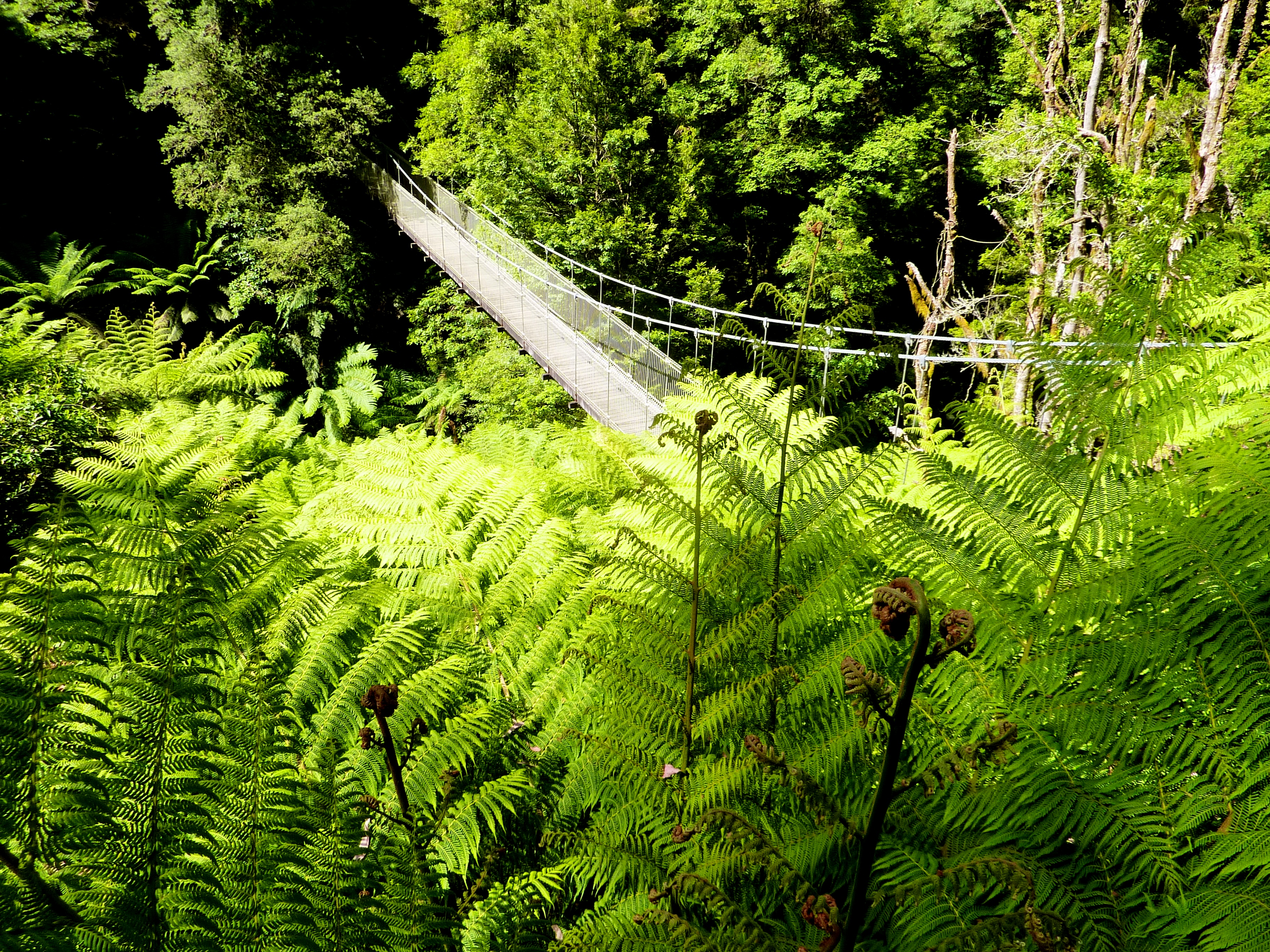 suspension bridge in Tarra Bulga Natl Park